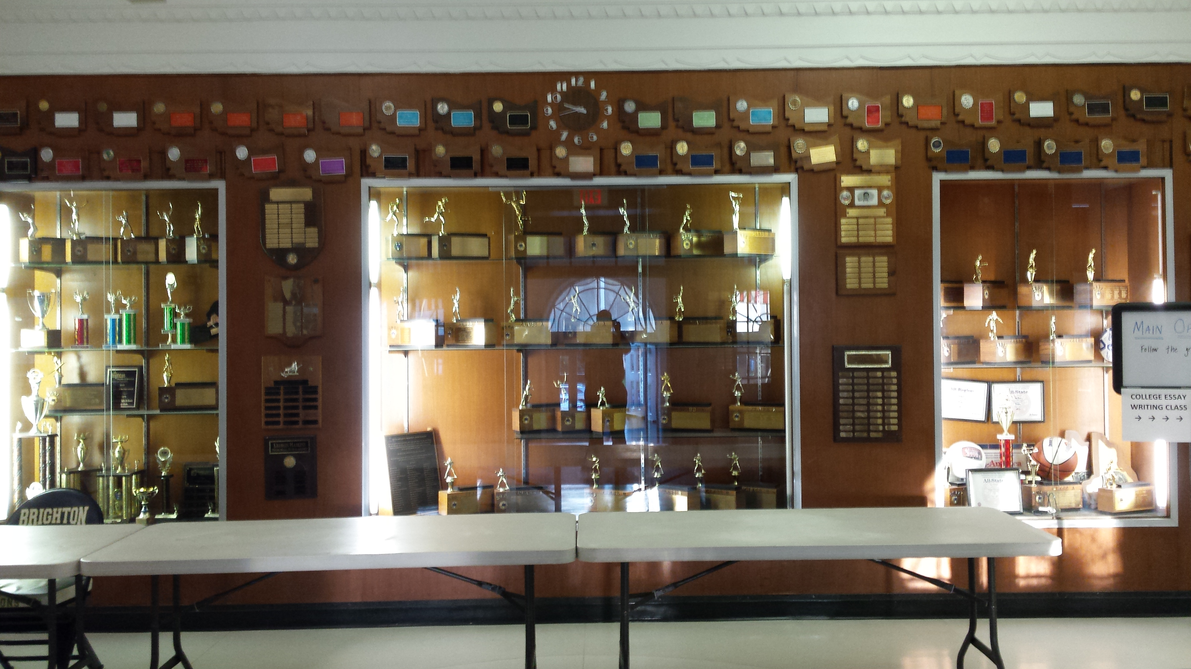 Trophy case in the front lobby of Brighton High School (Rochester, New York)